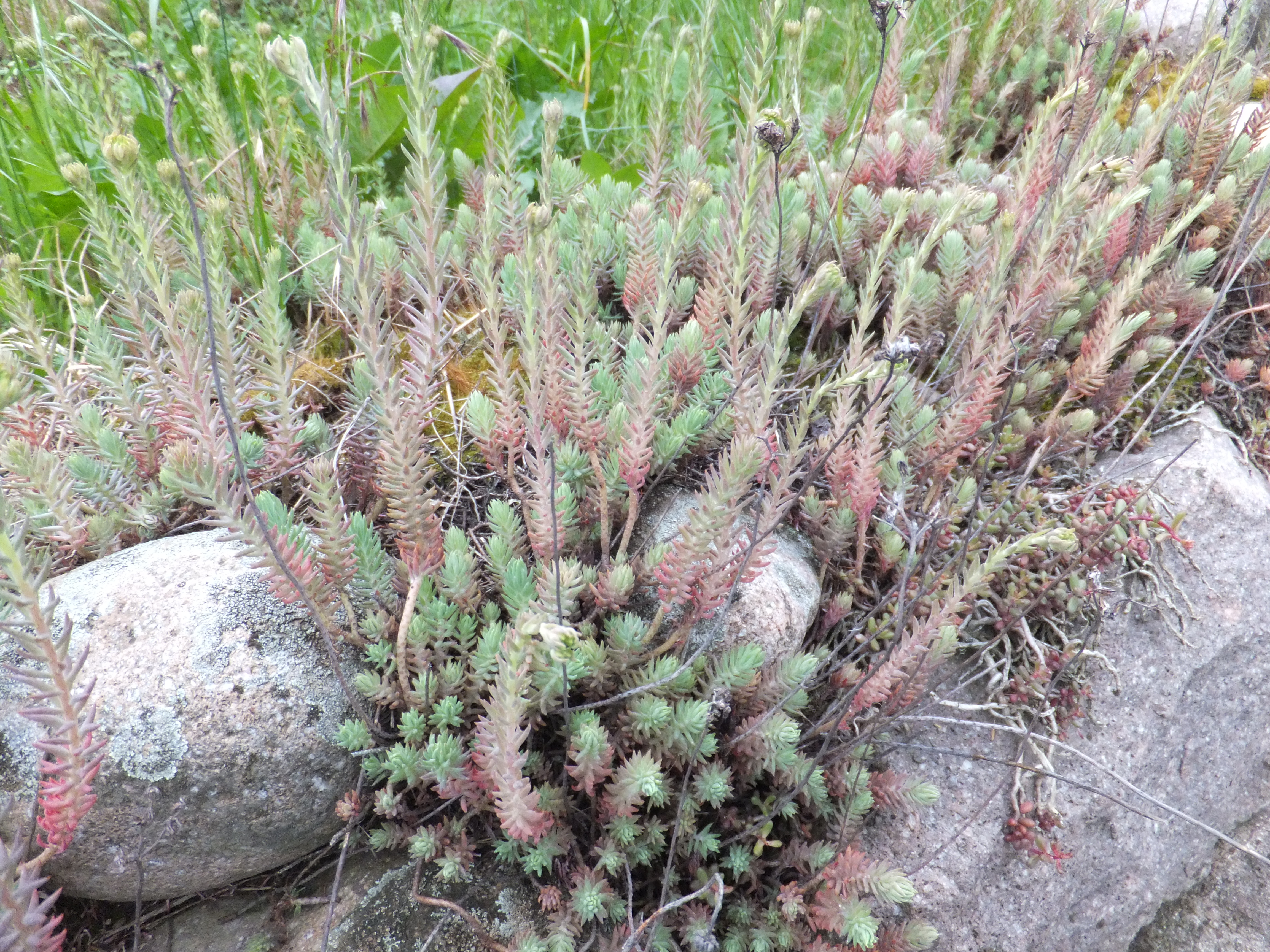 Wild fat plant of the Sedum genus, possibly S. rupestre